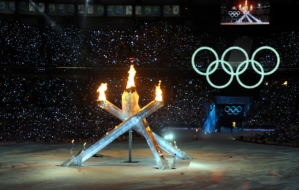 The OIympic flame burns before more than 60,000 spectators at BC Place stadium during the Opening Ceremony of the XXI Olympic Winter Games, Feb. 12, 2010, Vancouver, British Columbia, Canada.